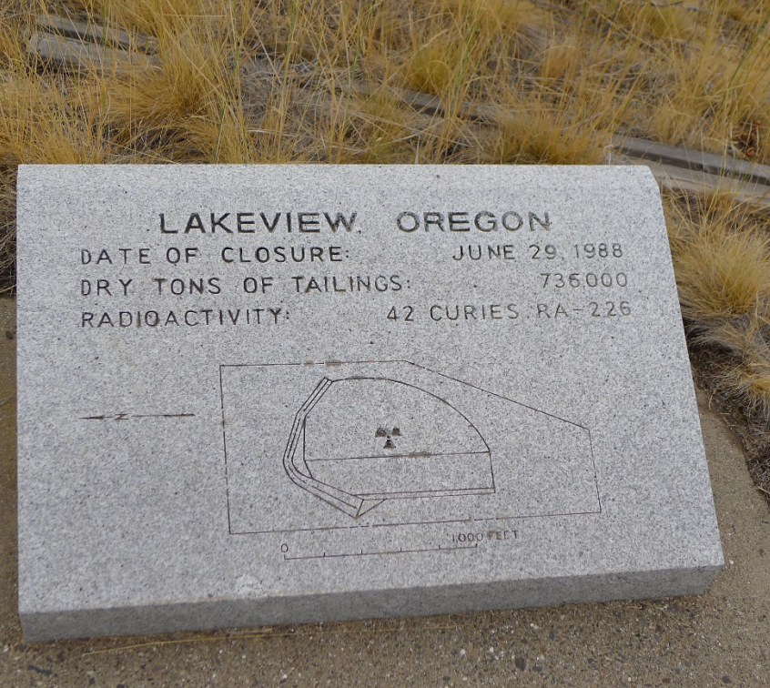 Marker for from the, which processed uranium ore into. From 2017 NRC visit